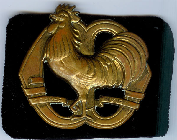 Dutch cap badge from the Army Watching Corps (1952-1955)